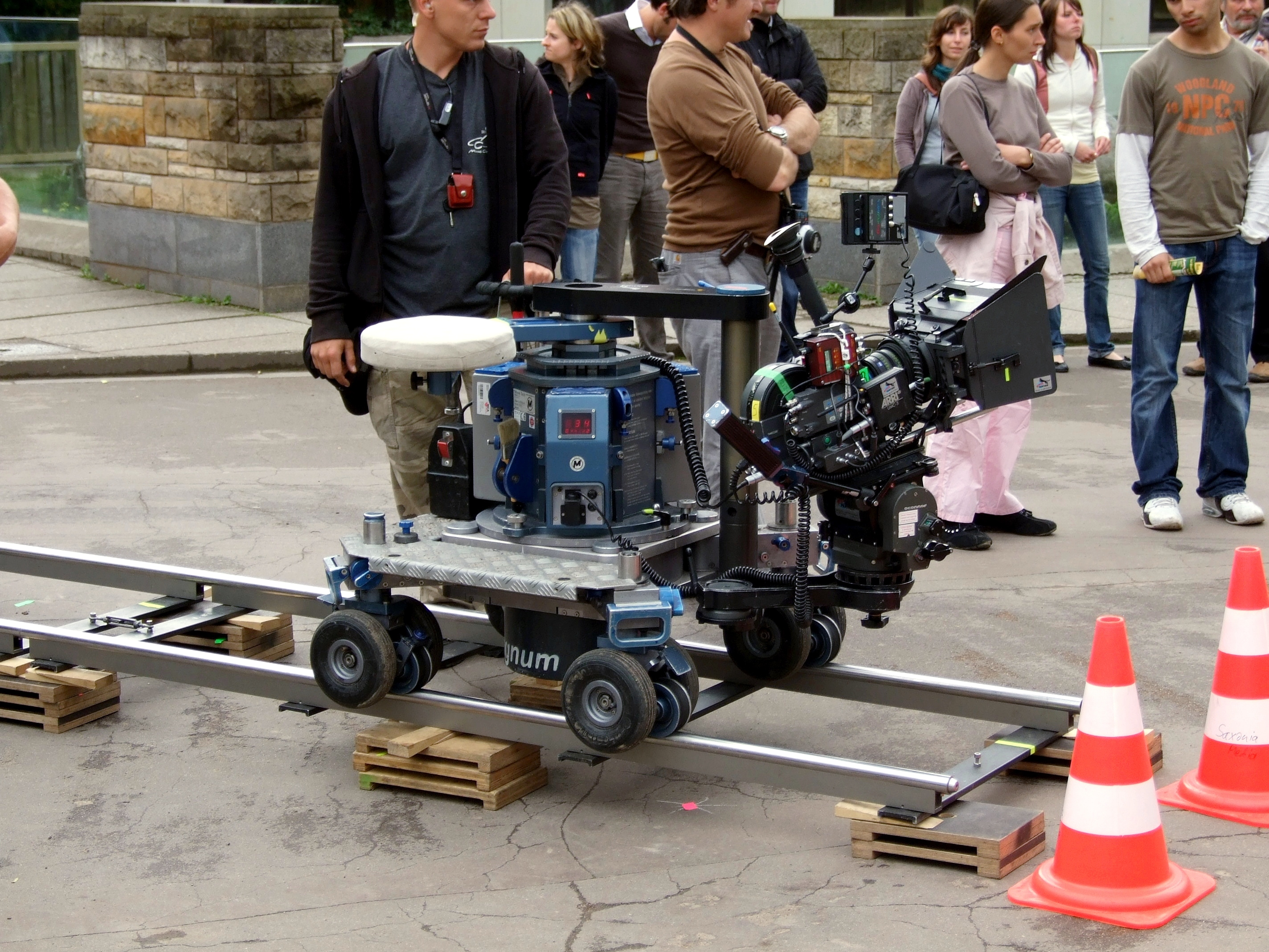 Possible ARRI Cam